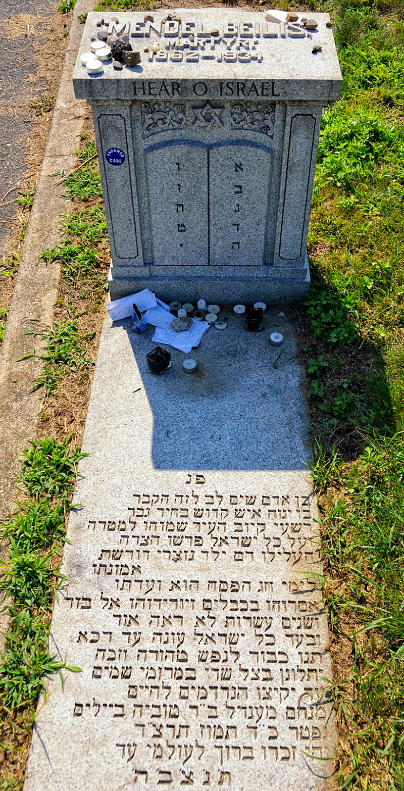 Headstone and footstone at the grave of Menahem Mendel Beilis